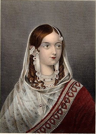 Bahadur Shah and Zinat Mahal, his youngest and favorite wife, shortly before 1857 (The Indian Empire, London, c.1858); *a very large, uncolored version of the Zafar portrait*; the Zafar portrait is entitled: "Mahomed Suraj-oo-Deen Shah Gazee, Titular King of Delhi, born 1773 & proclaimed rebel King of Delhi May 11th 1857; dethroned and captured Sept. 20 1857; from a miniature painted on ivory by the portrait painter to the King of Delhi; a beautiful specimen of native art. The London Printing and Publishing Company Ltd." (downloaded June 2001)